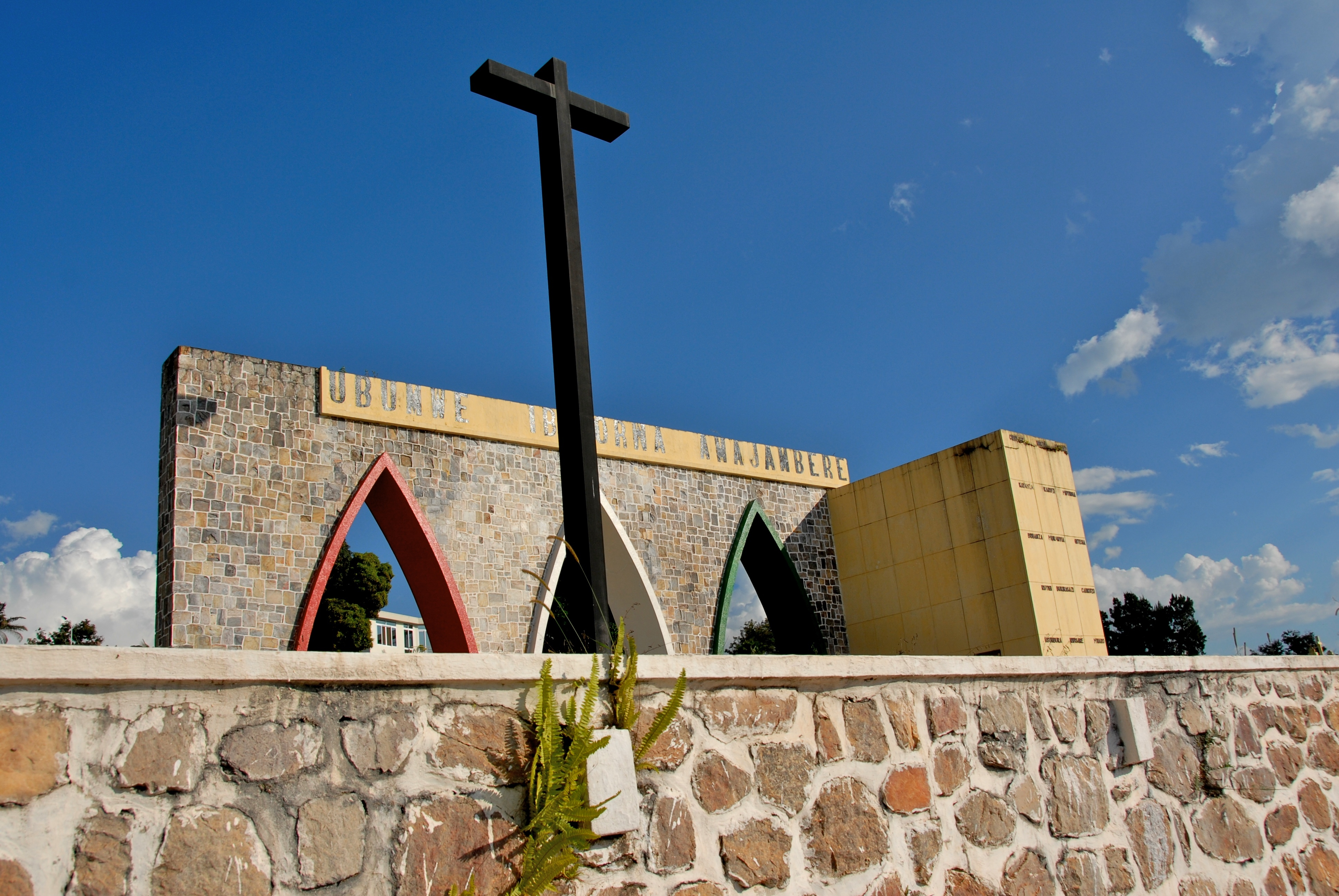 Prince Rwagasore Tomb